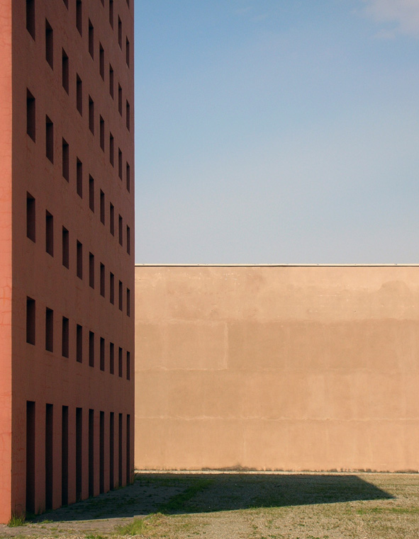 Κοιμητήριο στην Modena Ιταλίας